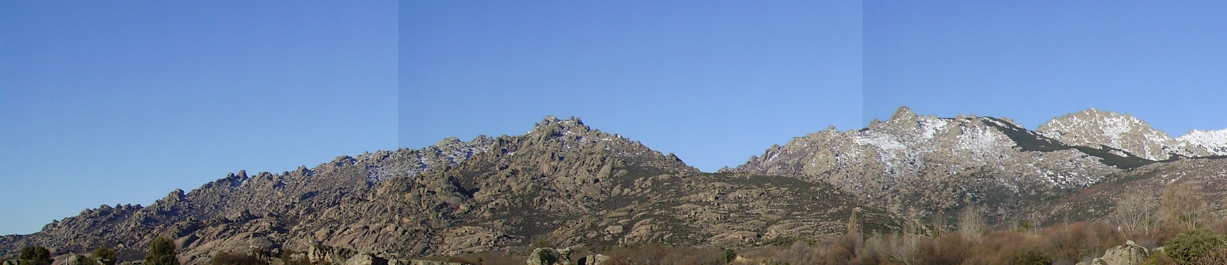 East area of La Pedriza (Guadarrama mountain range, central Spain).